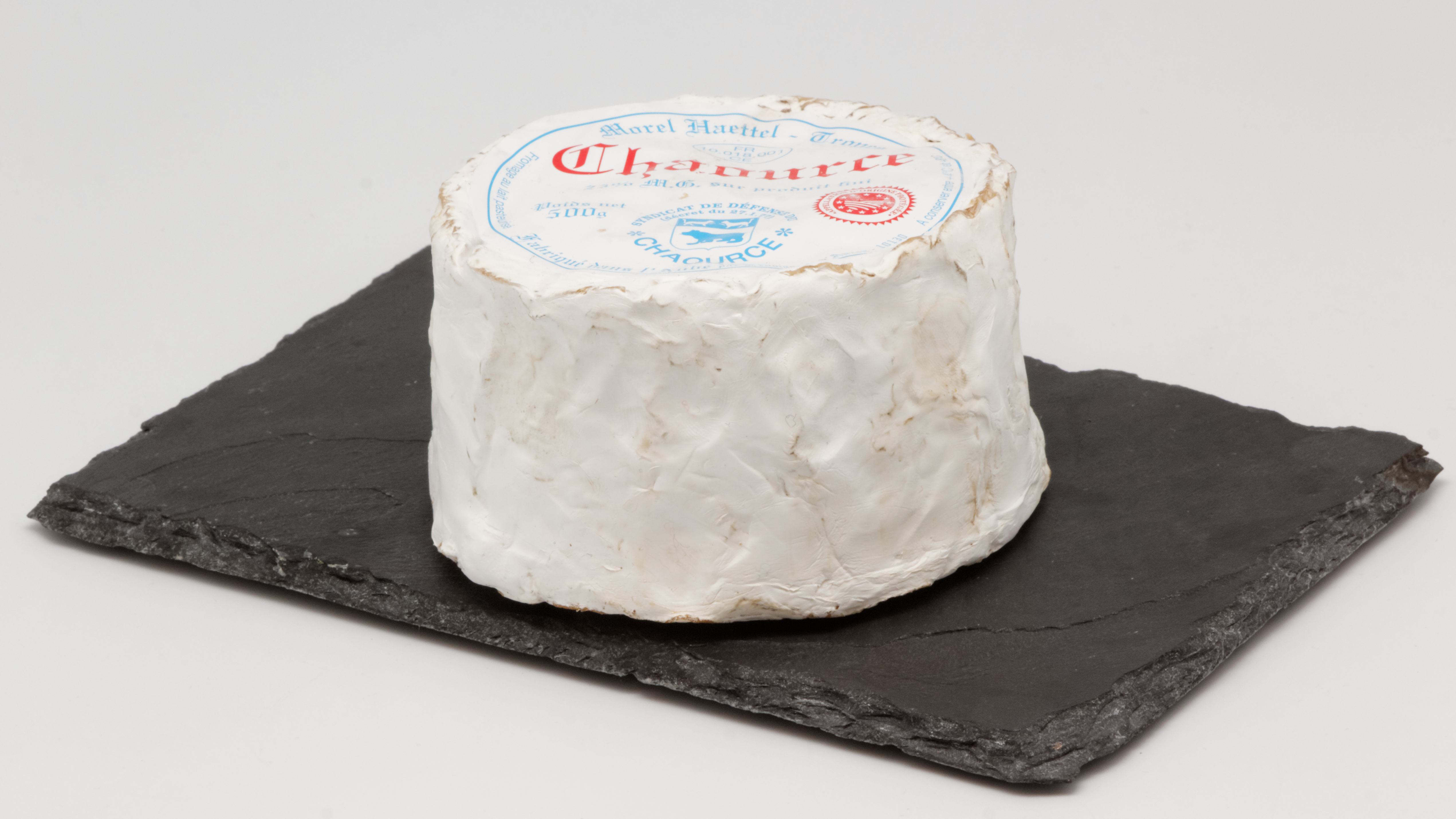 Chaource